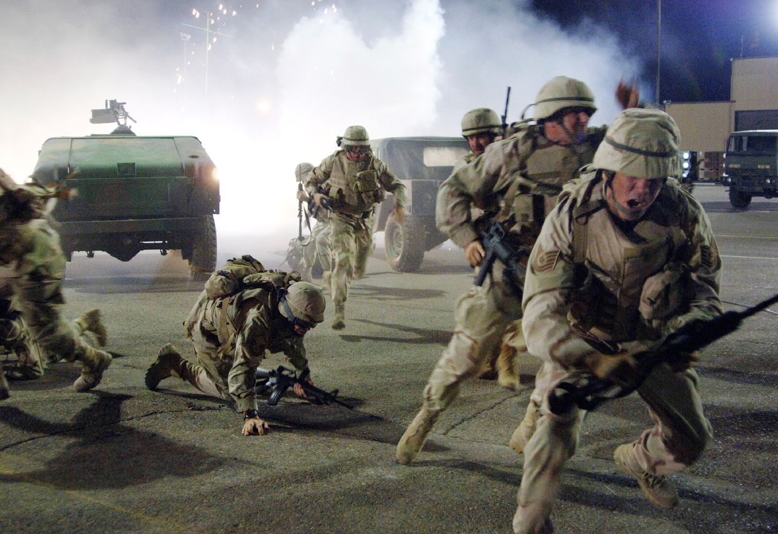 Airmen filling the roles of extras run for cover while being attacked on the flighline as a four-wheeler with a camera mounted on the back films the scene on the set of the movie Transformers at Holloman Air Force Base, N.M. on Tuesday, May 30, 2006.